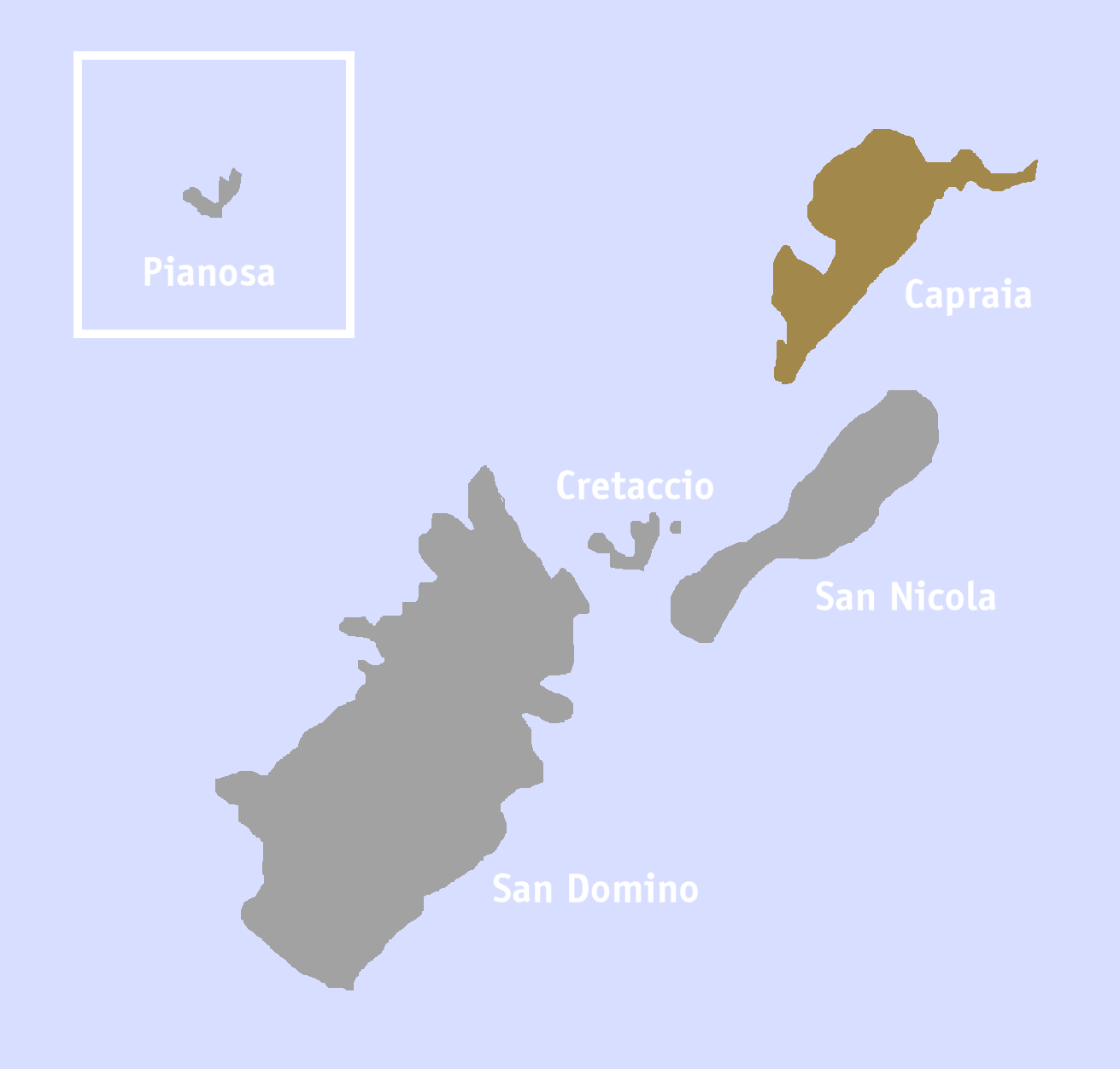 Map of the Isole Tremiti: Position of Capraia map created by user:Idéfix